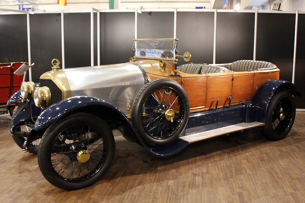 1912 Gobron-Brille Skiff by Rothschild_IMG_2961